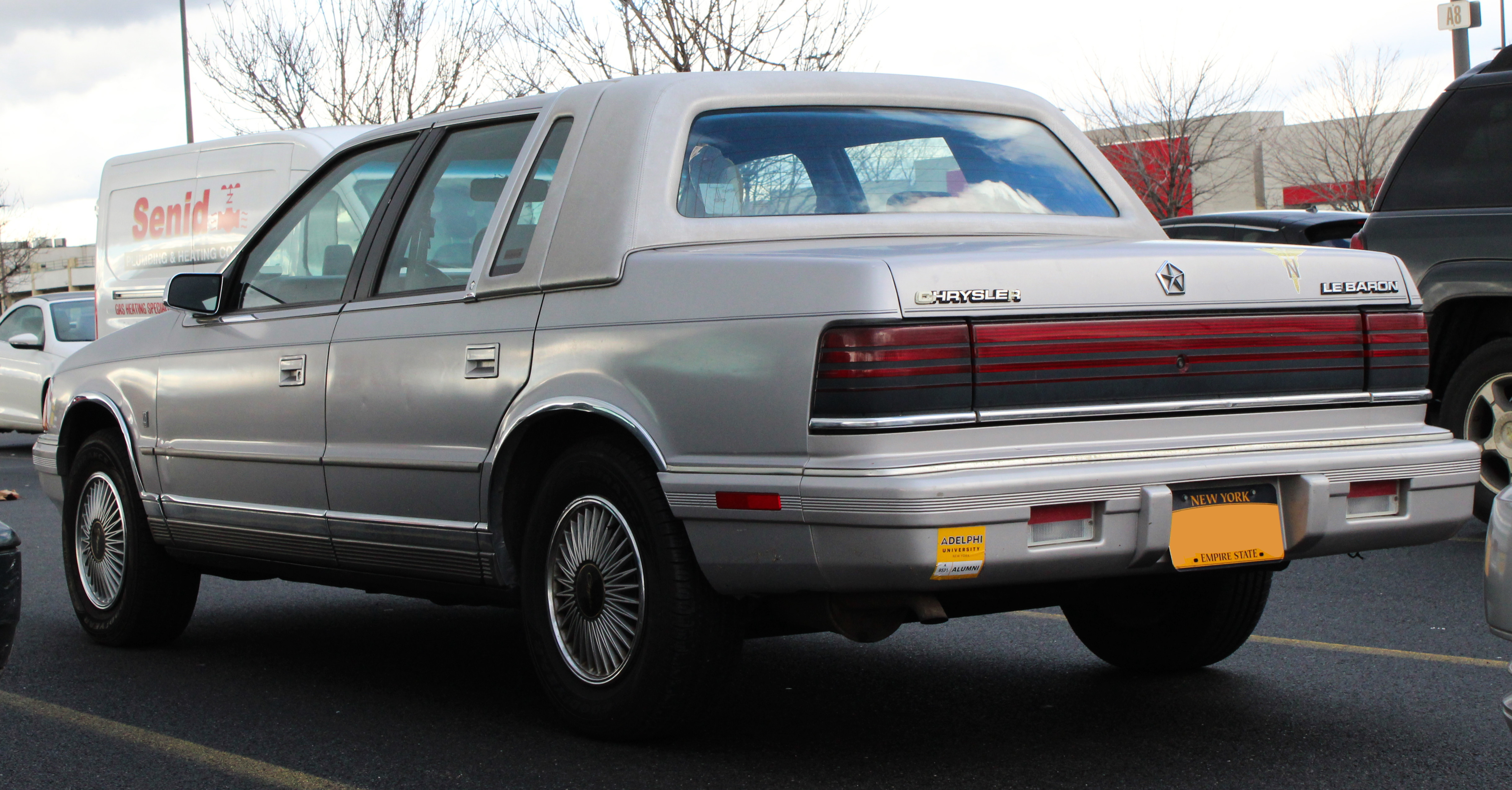 A 1990 Chrysler LeBaron photographed in College Point, Queens, New York, USA